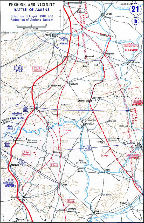 Battle of Amiens from the Hundred Days Offensive in World War One.